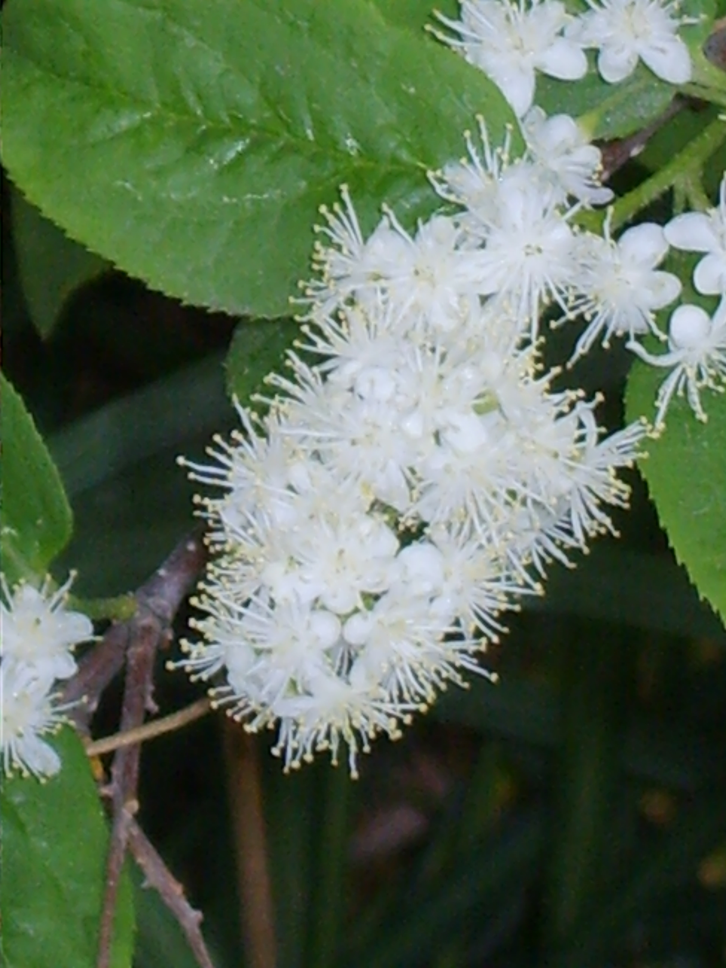 Symplocos chinensis for. pilosa's flowers in Incheon Korea. 인천 연수동 원인재역 근처 길가 화단에 사는 노린재나무 꽃.